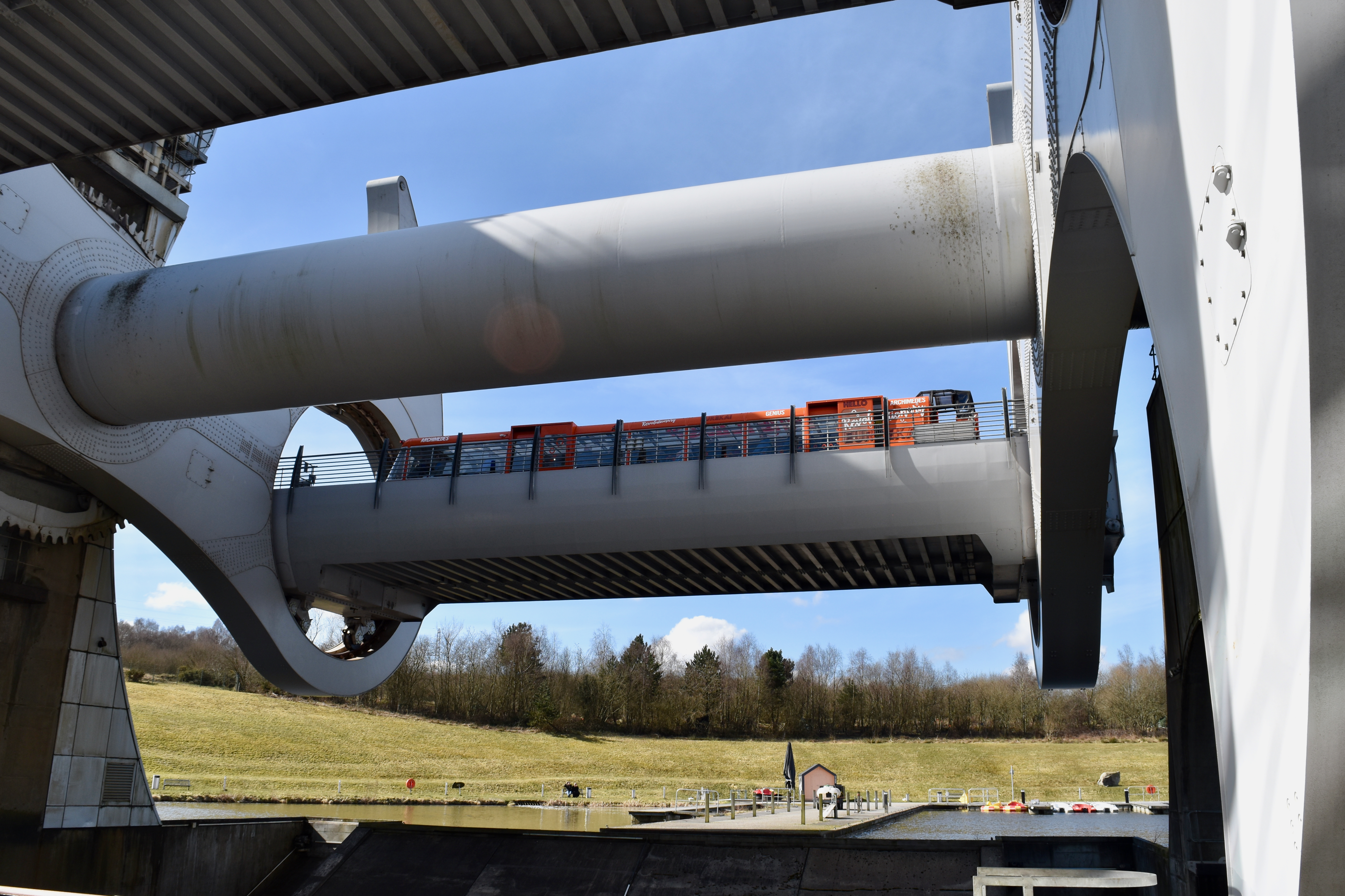 Falkirk Wheel is lifting a caisson with a boat up from the dry docking-pit shown at the bottom of the picture.